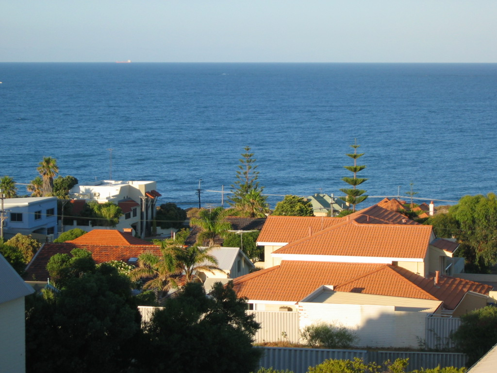 View west from Mt Flora lookout, Watermans Bay, Western Australia.